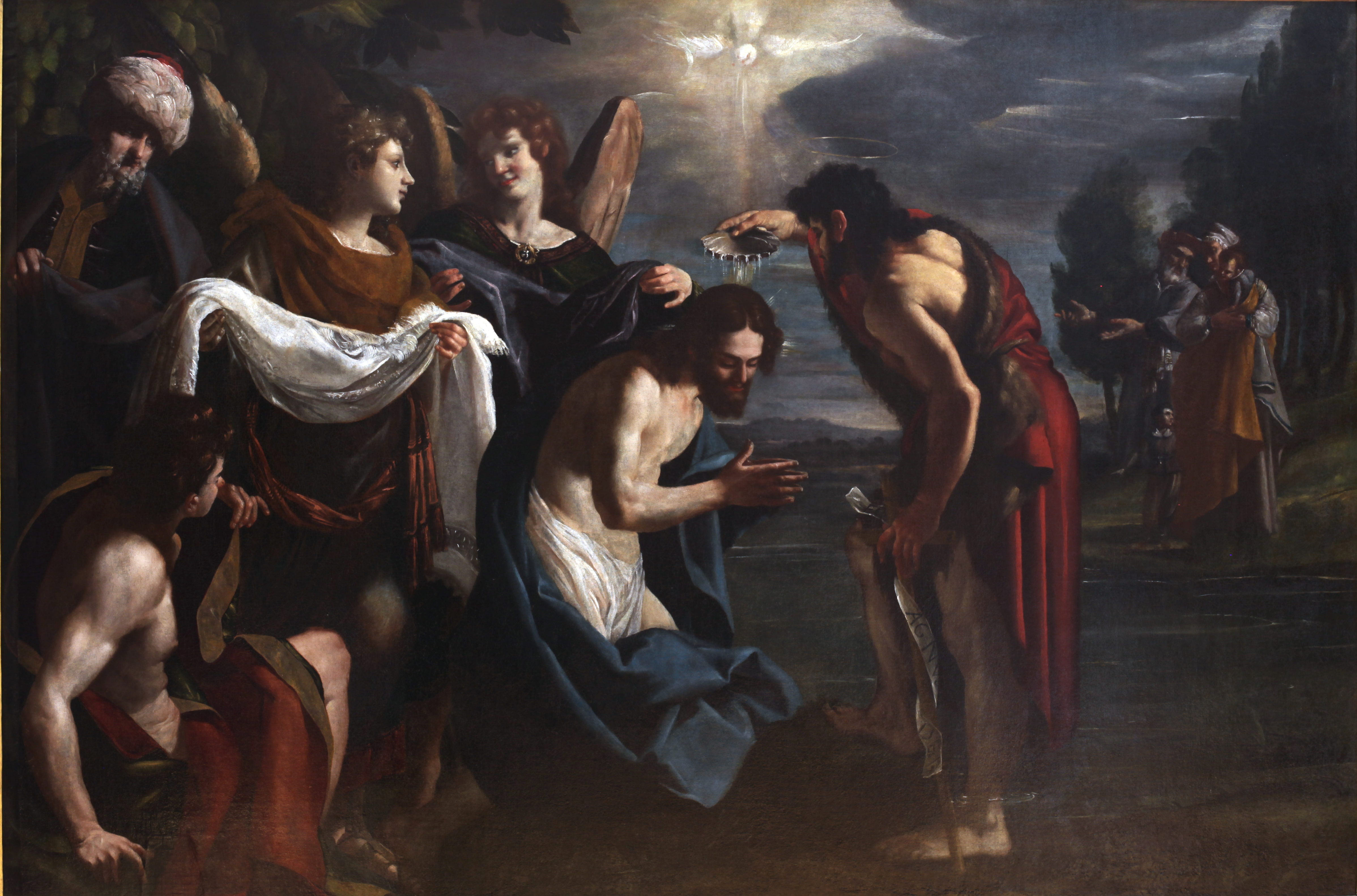 Draft for the painting at the Louvre